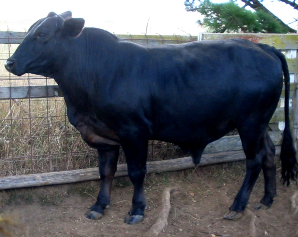 Australian Brangus steer